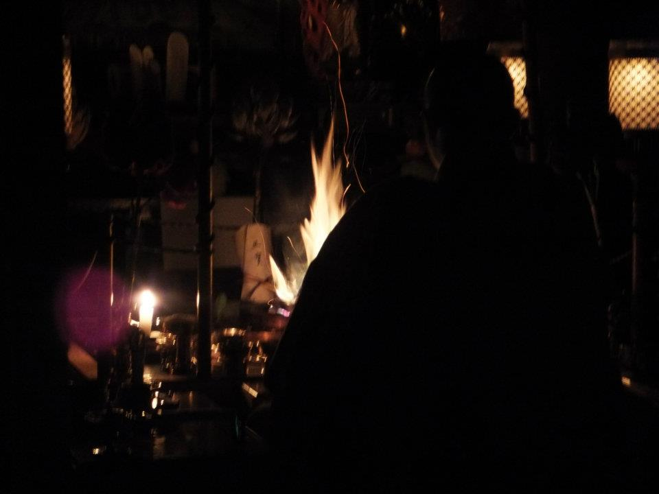 Buddhist Shingon monk in the Aizen-Hall (Aizendō) on Mount Kōya (Japan) conducting the Goma ritual (Sanscr. homa) by burning wooden tablets with wishes etc. in a consecrated fire.